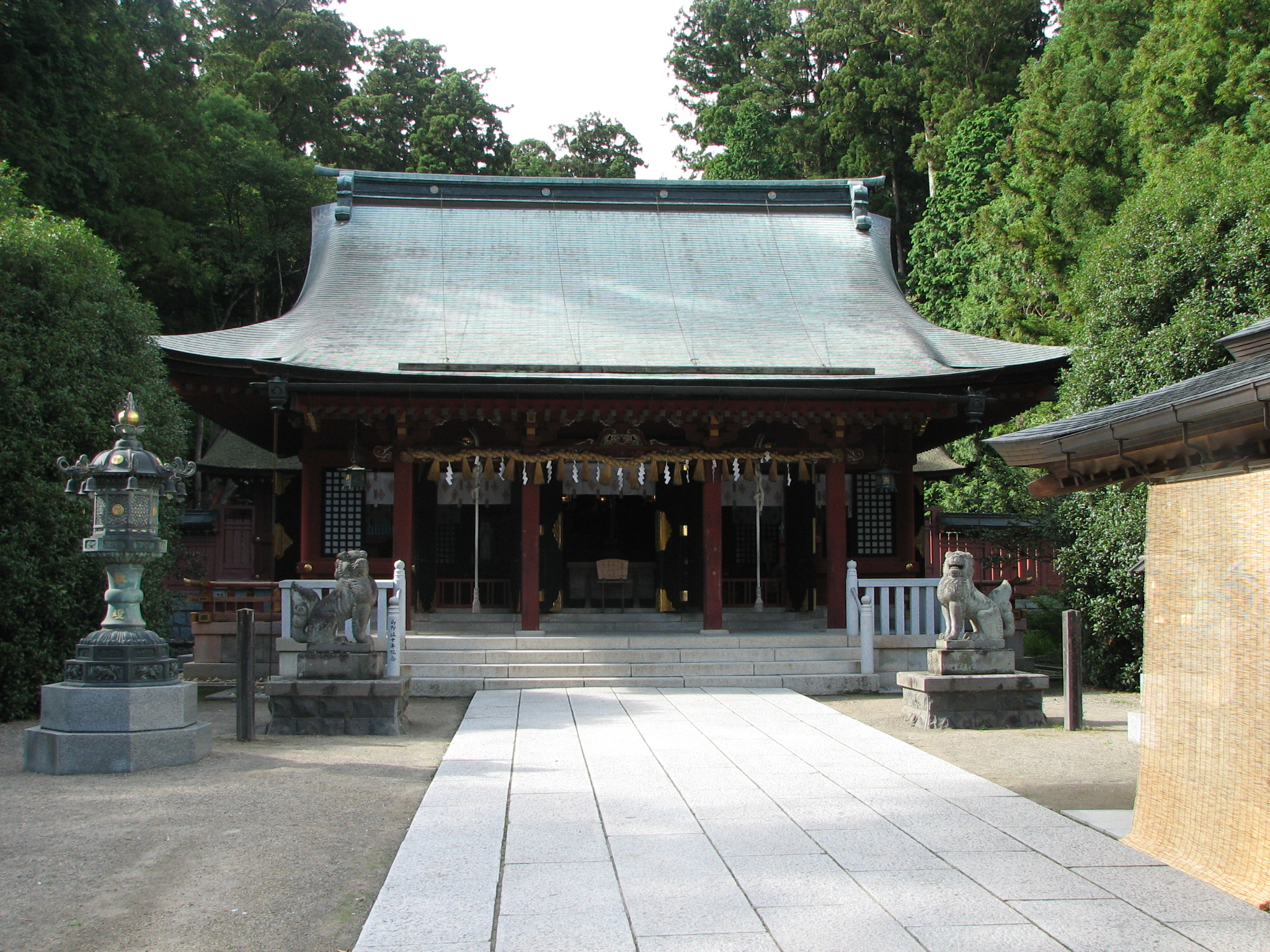 the haiden of Shiwahiko Shrine, Shiogama, Miyagi, Japan 志波彦神社拝殿（宮城県塩竈市）